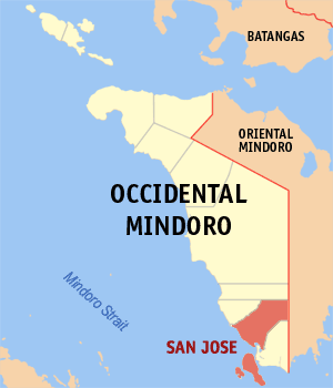 Map of Occidental Mindoro showing the location of San Jose